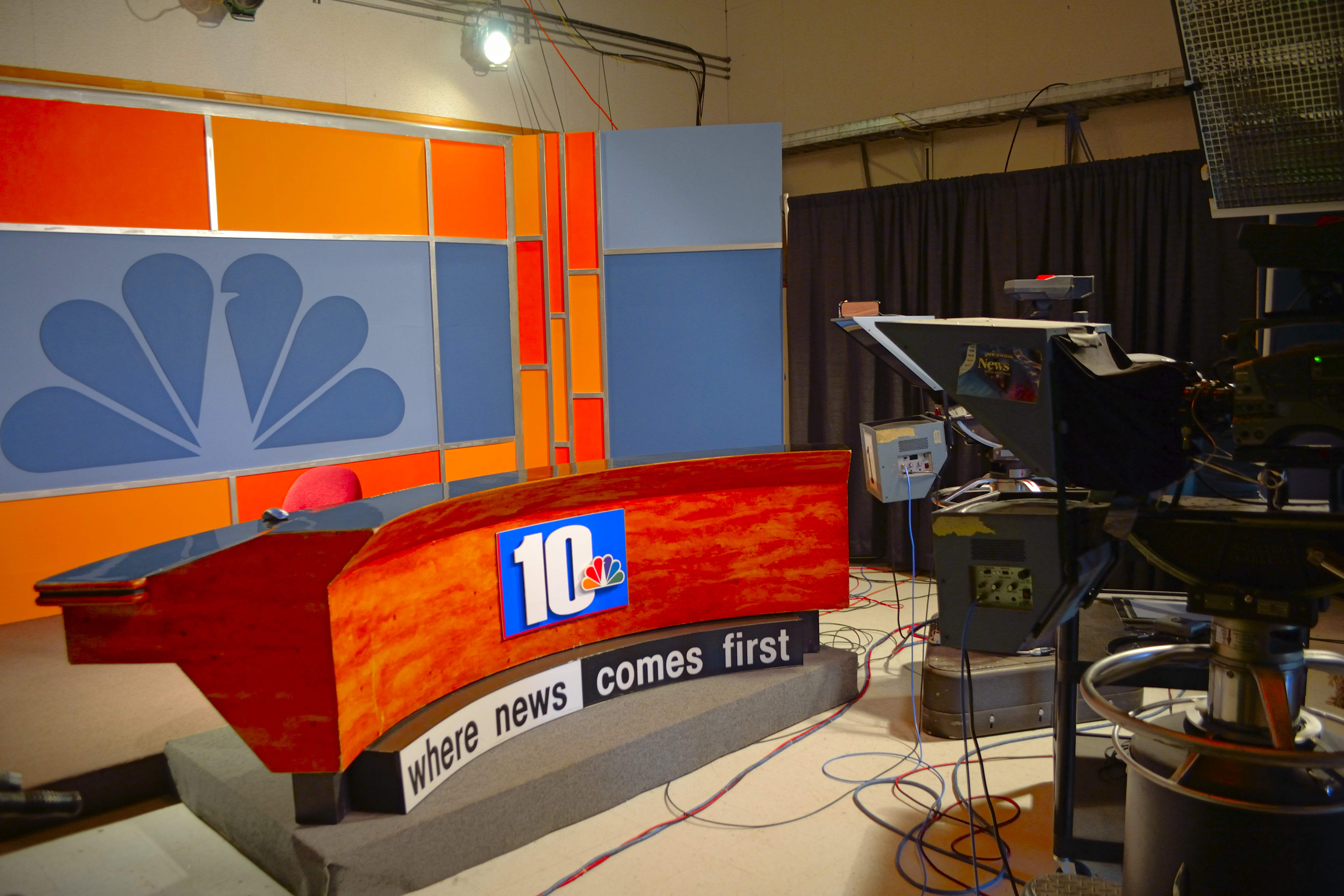 KENV Studio (Elko, Nevada)